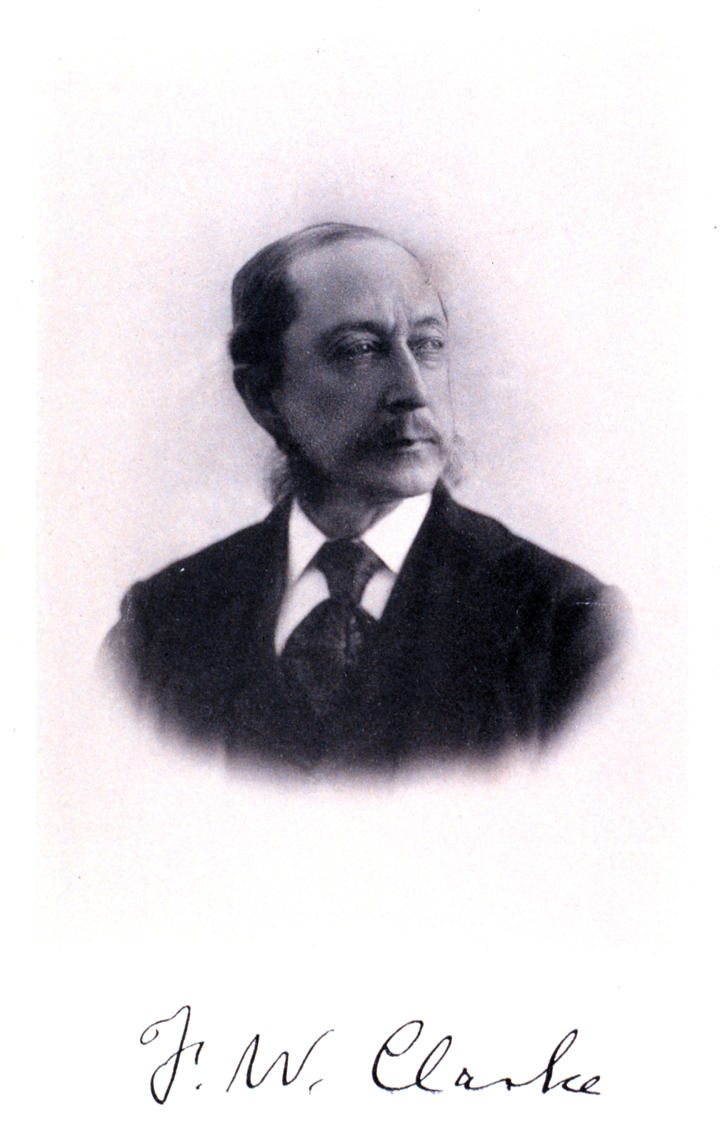 U.S. Government photo of Frank Wigglesworth Clarke